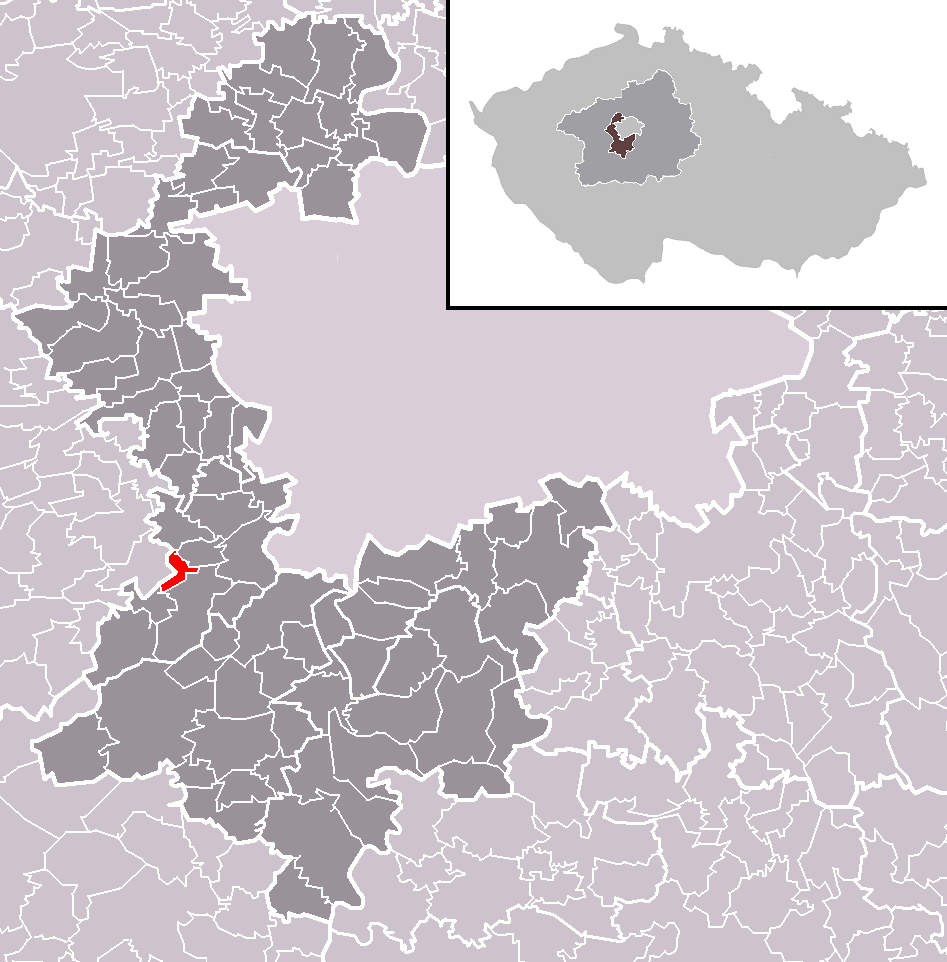 Location of Karlík municipality within Prague-West District and administrative area of Černošice as a Municipality with Extended Competence.